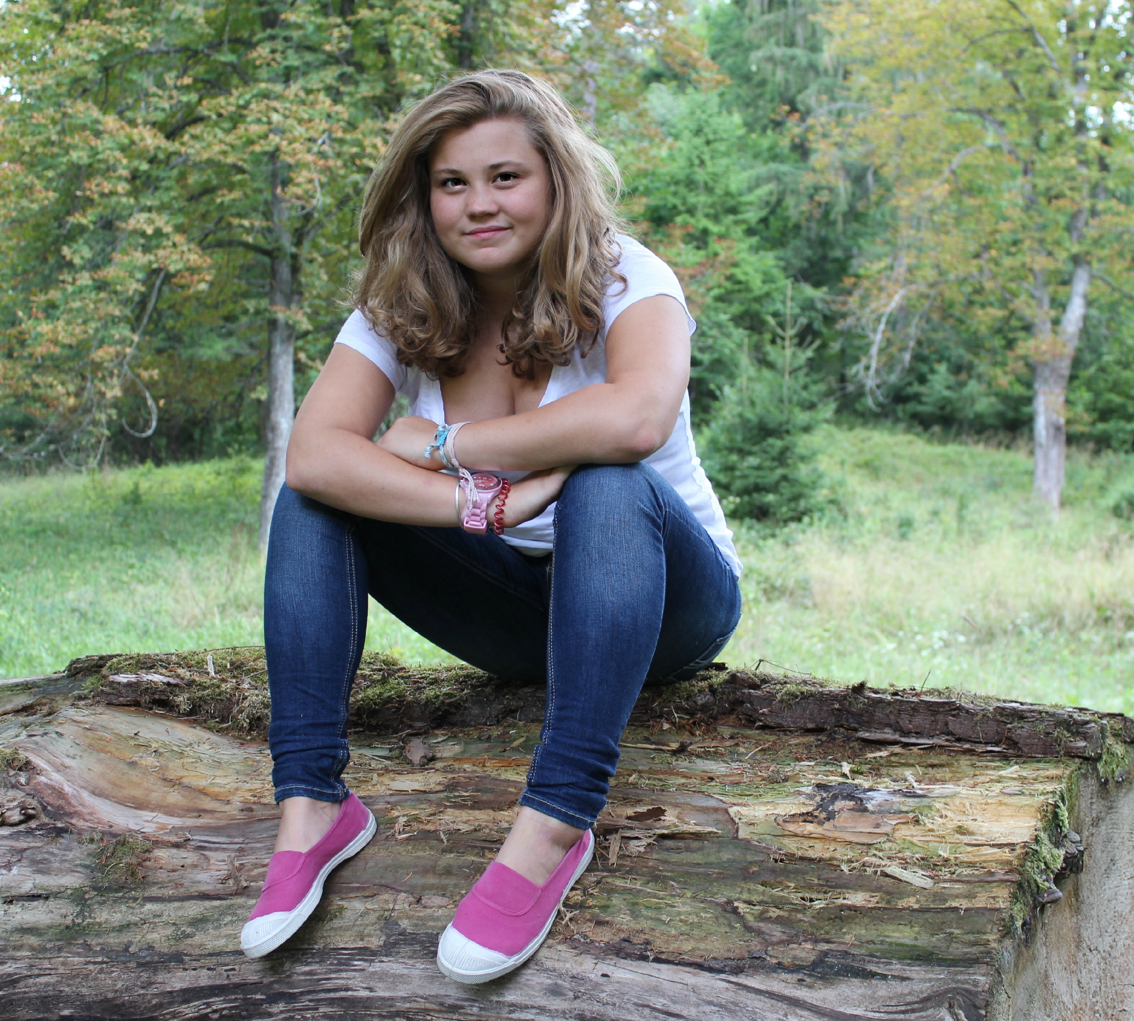 Isabella Luke in 2015